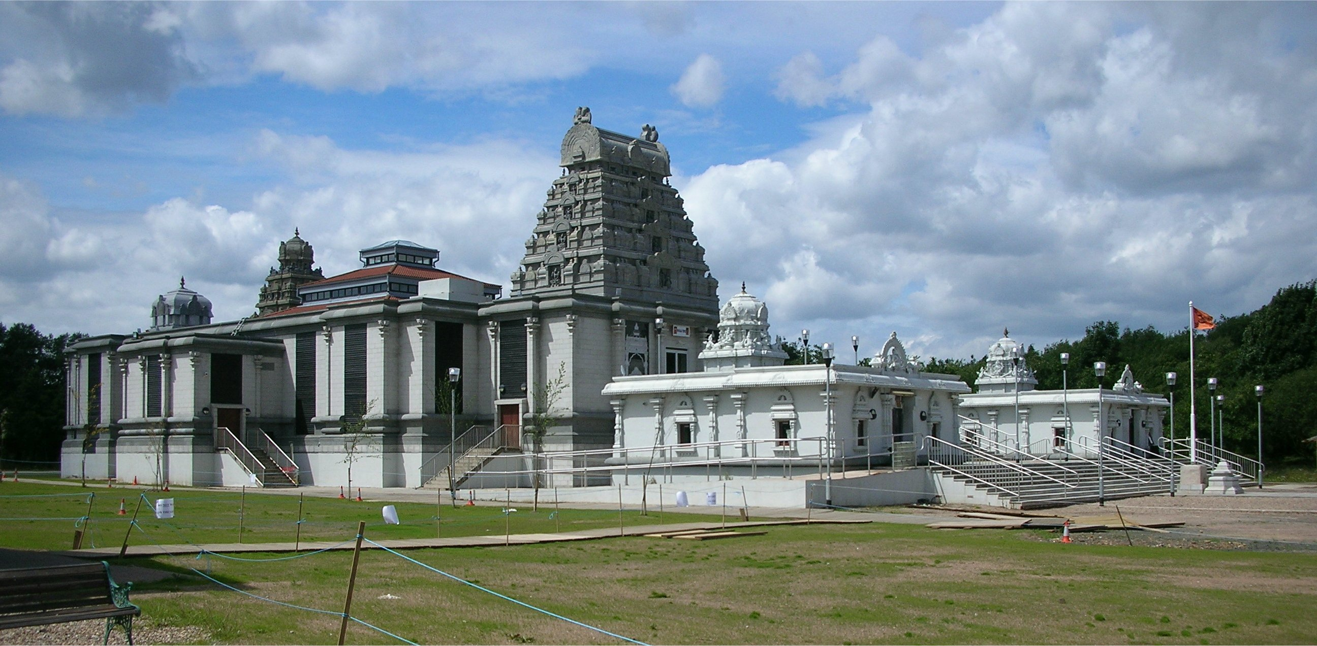 The Tividale Tirupathy Balaji Temple in Tividale, West Midlands, England. Photographed by me 28 June 2007. Oosoom